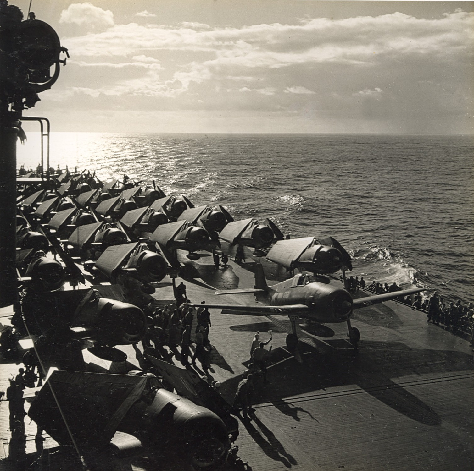 View of the commencement of a launch of Carrier Air Group 12 (CVG-12) on board the U.S. Navy aircraft carrier USS Saratoga (CV-3), 1943-1944. The planes nearest to the camera are Grumman F6F-3 Hellcat fighters of VF-12.